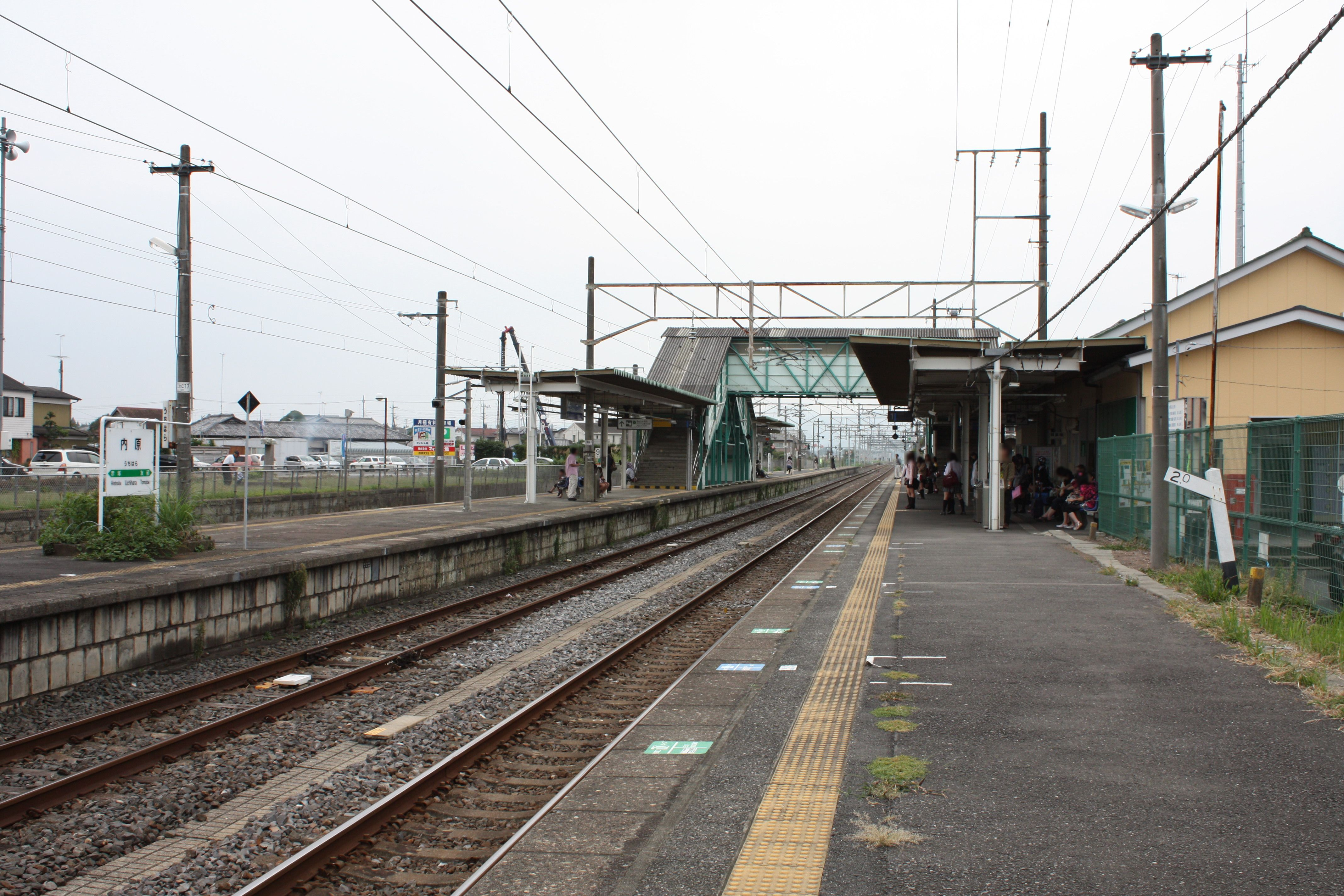 Uchihara Station platform